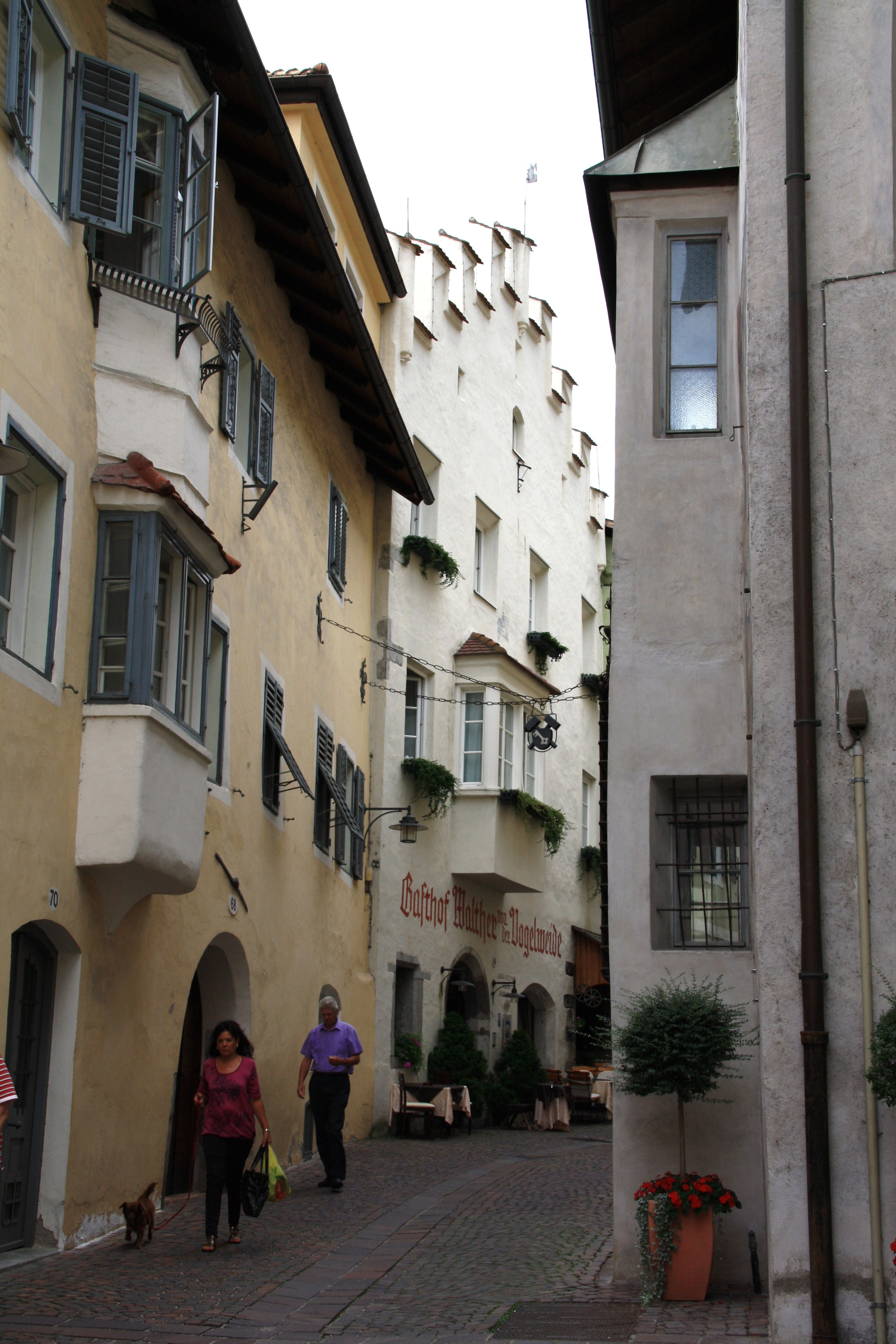 Italy, South Tyrol, Klausen. Oberstadt is the main street with mediaeval houses.